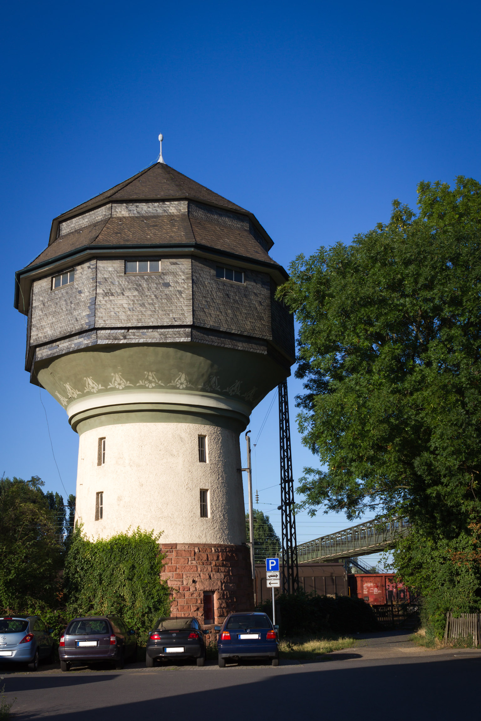 The Water tower in Bischofsheim, Hessen, Germany.